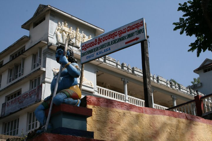 Entrance of Kalaseswara Temple in Kalasa, Karnataka.